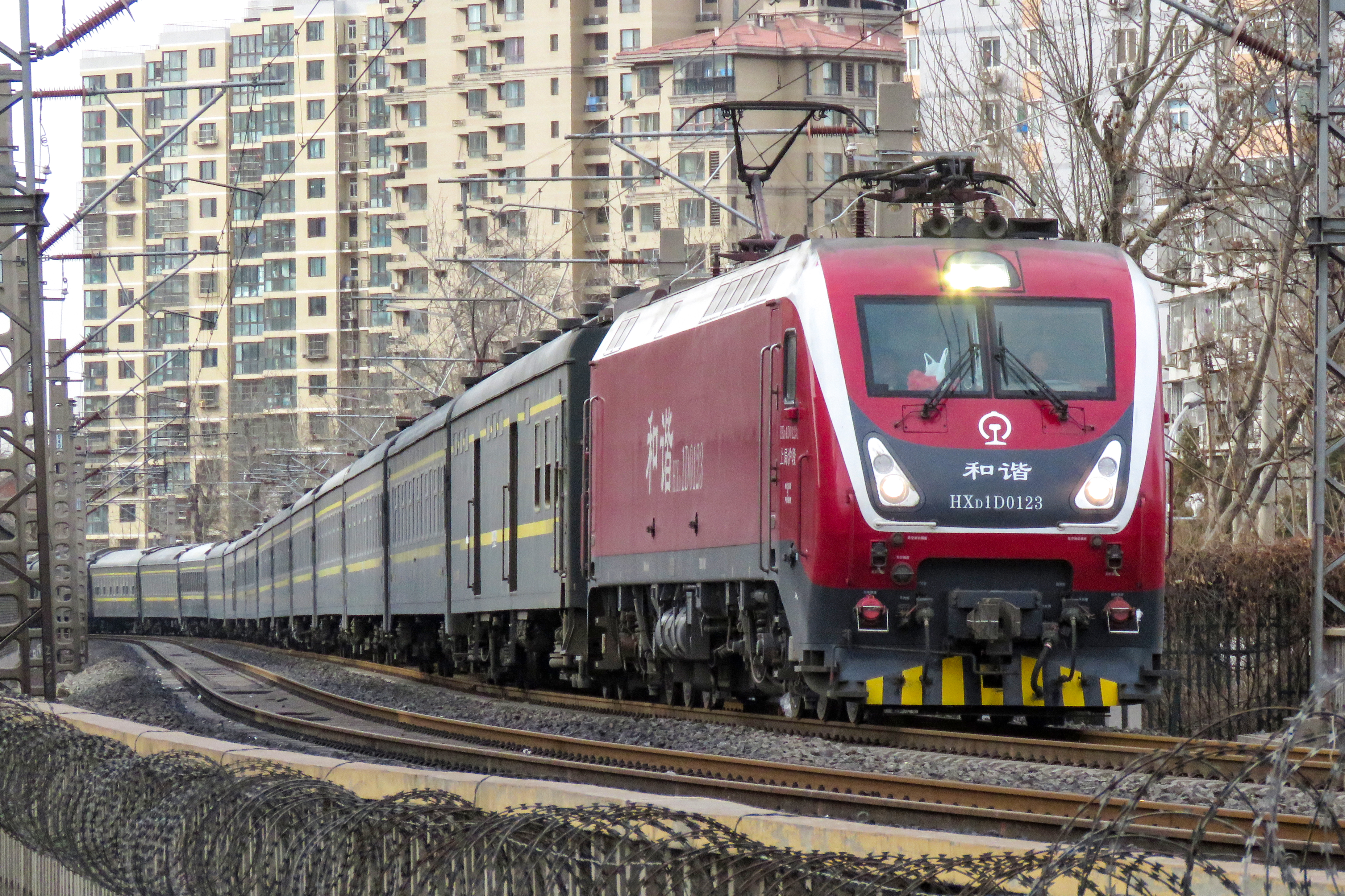 T110 from Shanghai. Apart from D7xx, there's still T109 and Z281.